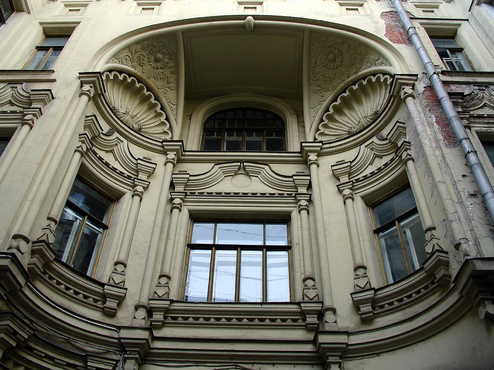 Savvinskoye Podvorie, 6 Tverskaya Street, Moscow, Russia. This building was moved from its original site in 1930s and is now completely enclosed inside a stalinist apartment block and Moscow Art Theatre buildings